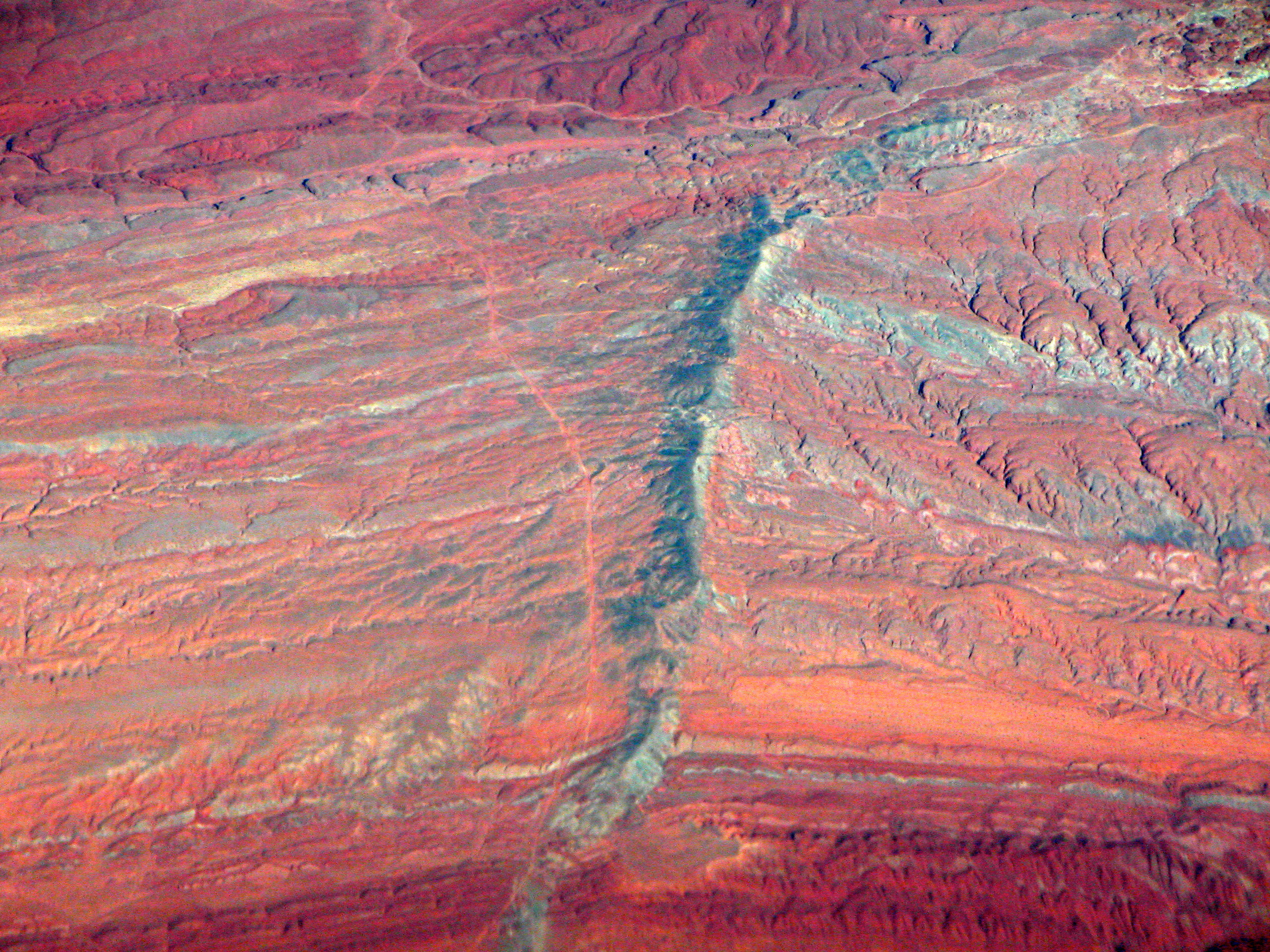 The Moses Rock Dike diatreme, a kimberlite-bearing dike in Cane Valley, Utah, USA.